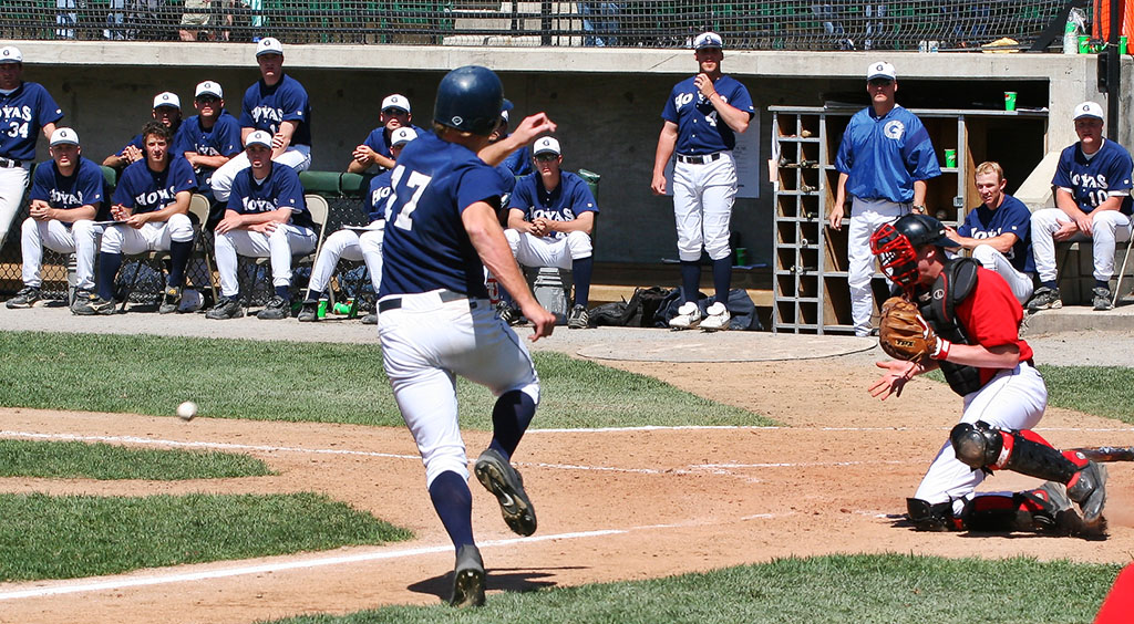 A tough play... the ball will beat the Georgetown runner, but it was an errant toss from the outfield. The catcher couldn't field the ball after it took a wild bounce, and the runner made it home. It didn't save the Hoyas though... St. John's won the game, capping off their 3-0 weekend series against Georgetown.